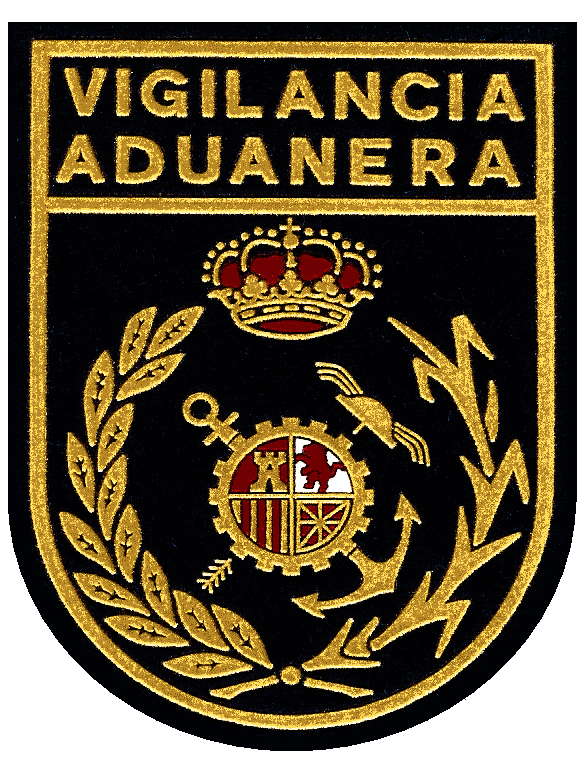 Spanish Customs Badge